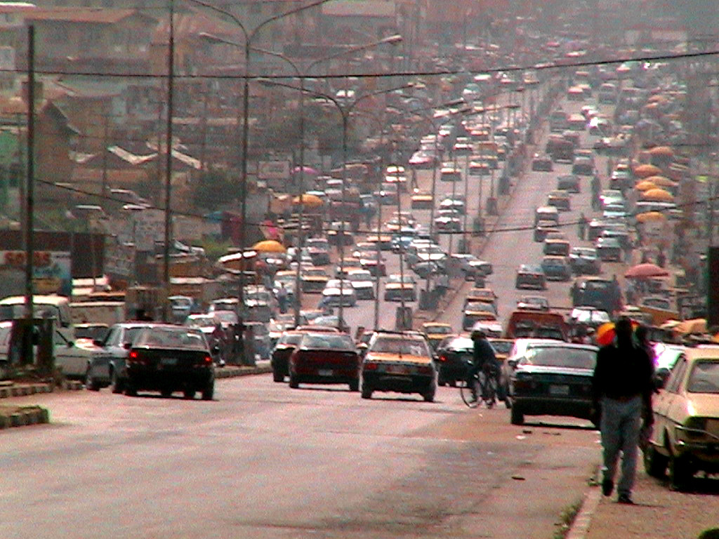 Photograph of Akure town